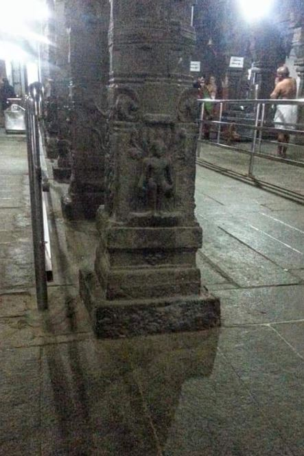 Devotees believe that Nagaraja Temple was earlier a Jain temple because of the images of Jain Tirthankaras, Mahavira and Parswanatha on the pillars of the temple.